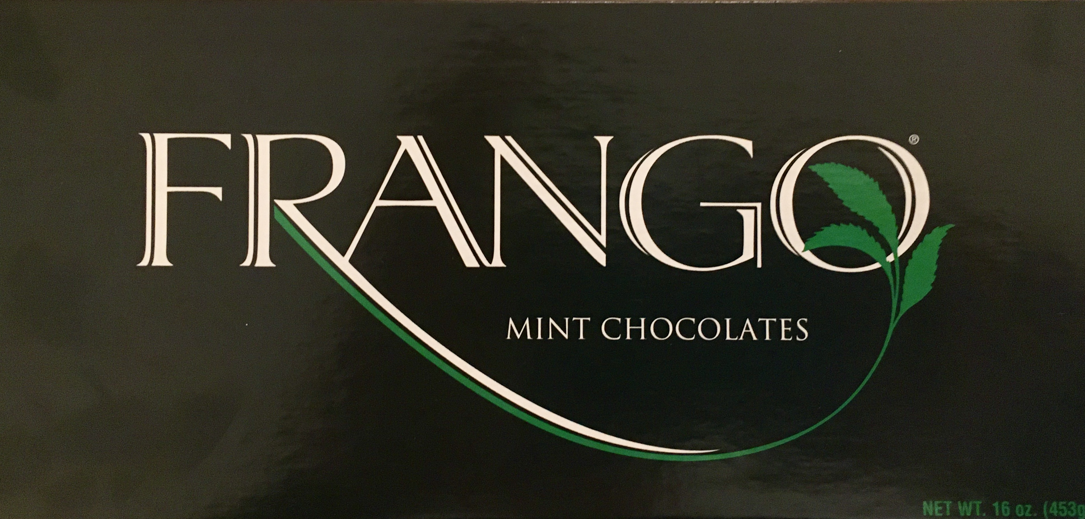 A box of Milk Chocolate Frango mints, sold by Macy’s